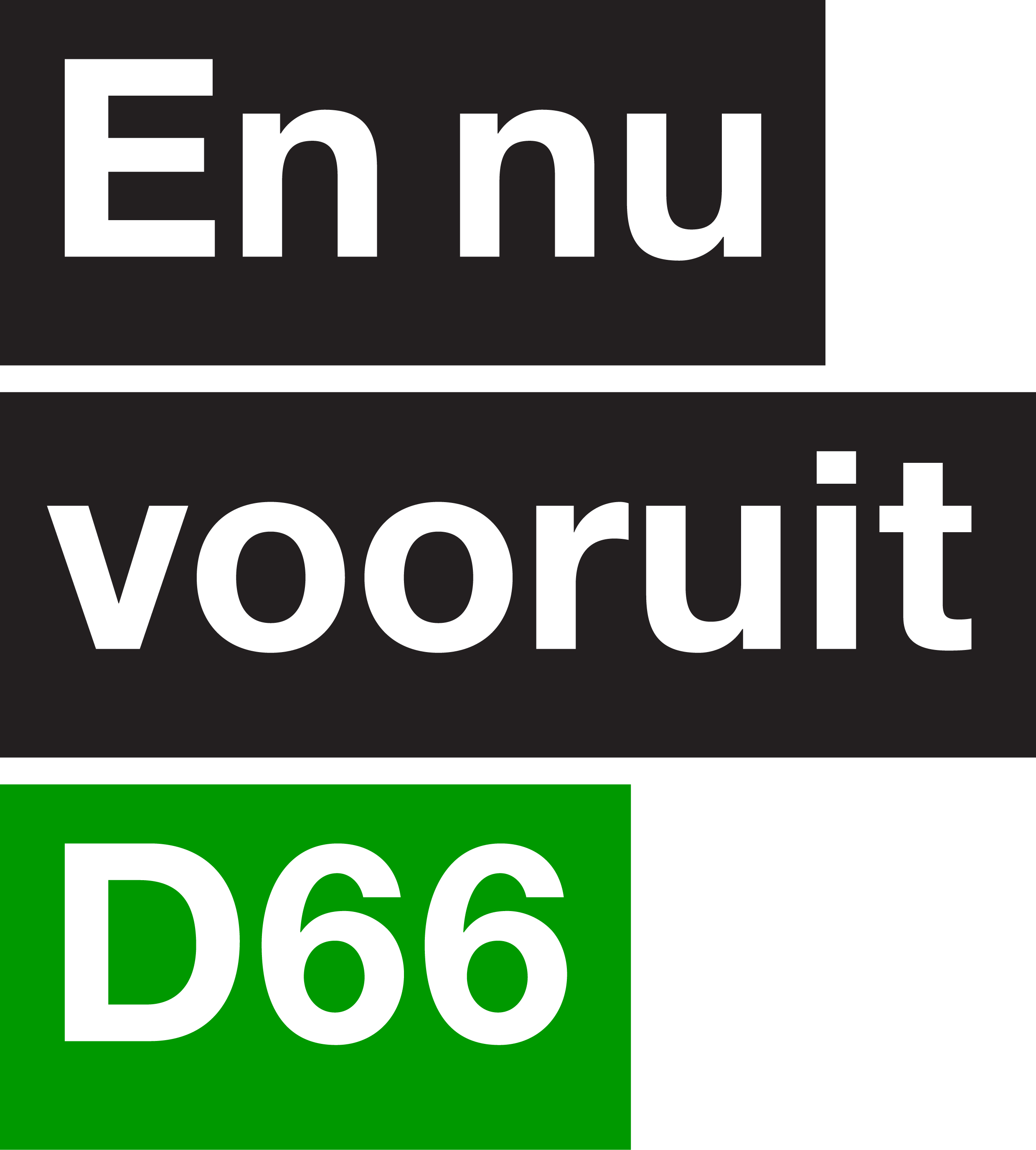 D66 election poster for the 2012 Dutch general elections